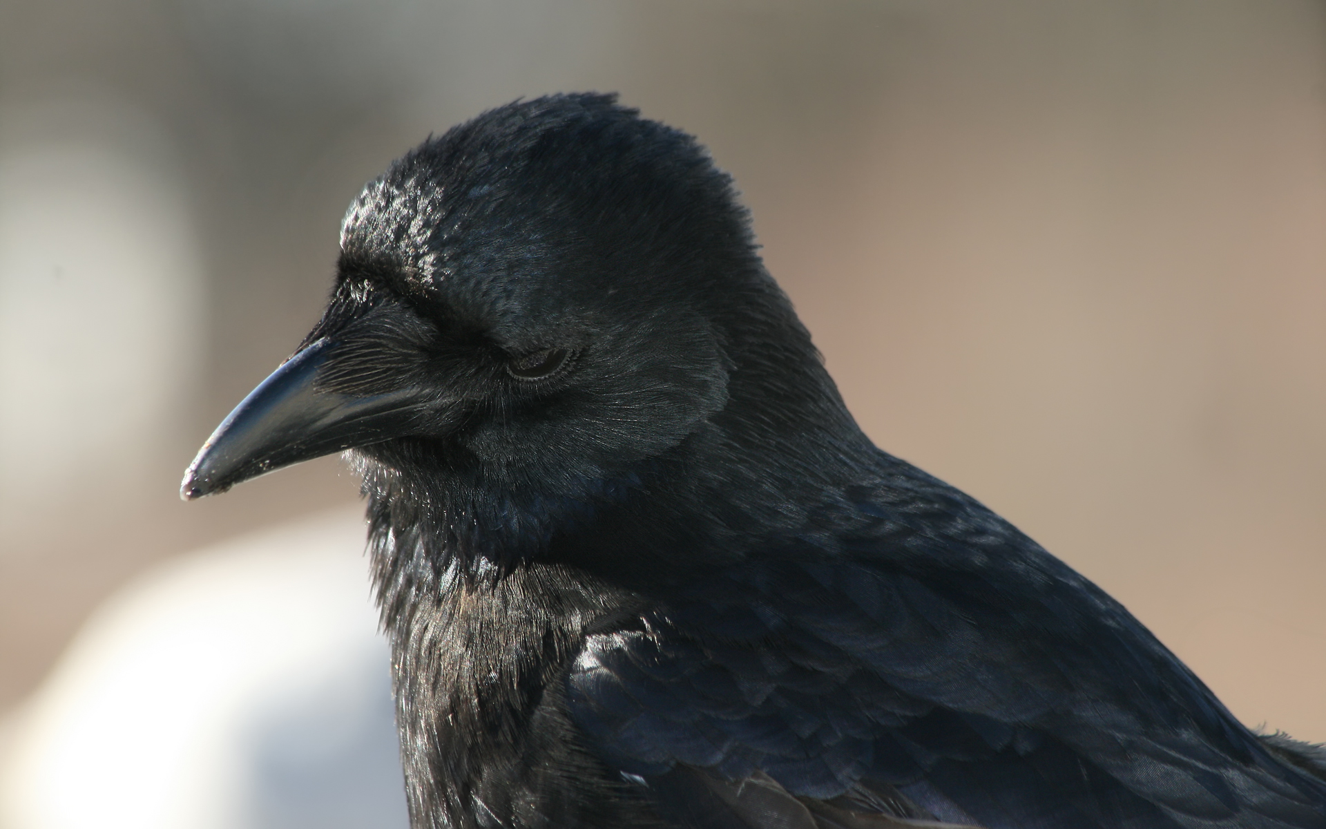 Description: The Carrion Crow (Corvus corone) is a member of the passerine order of birds and the crow family which is native to western Europe and eastern Asia.